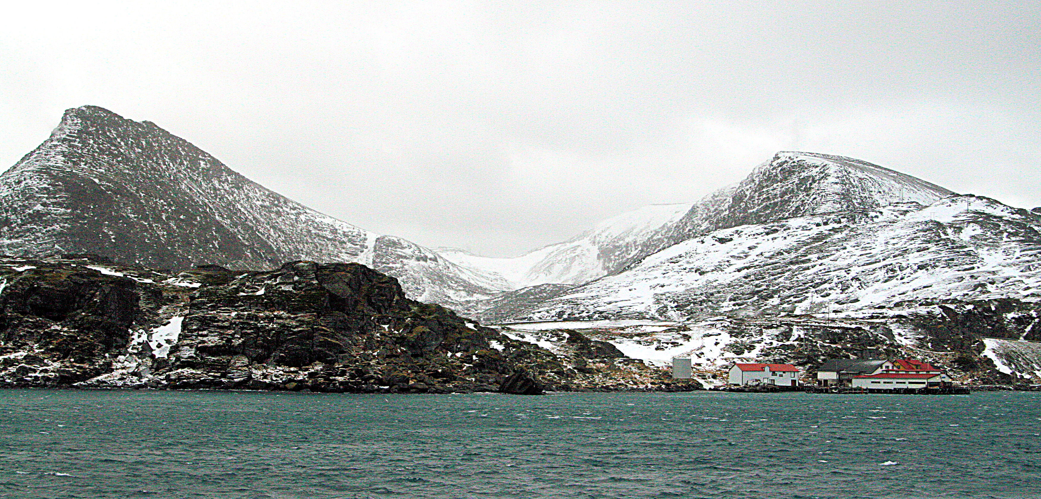 Havøysund, Northern Norway february 2006